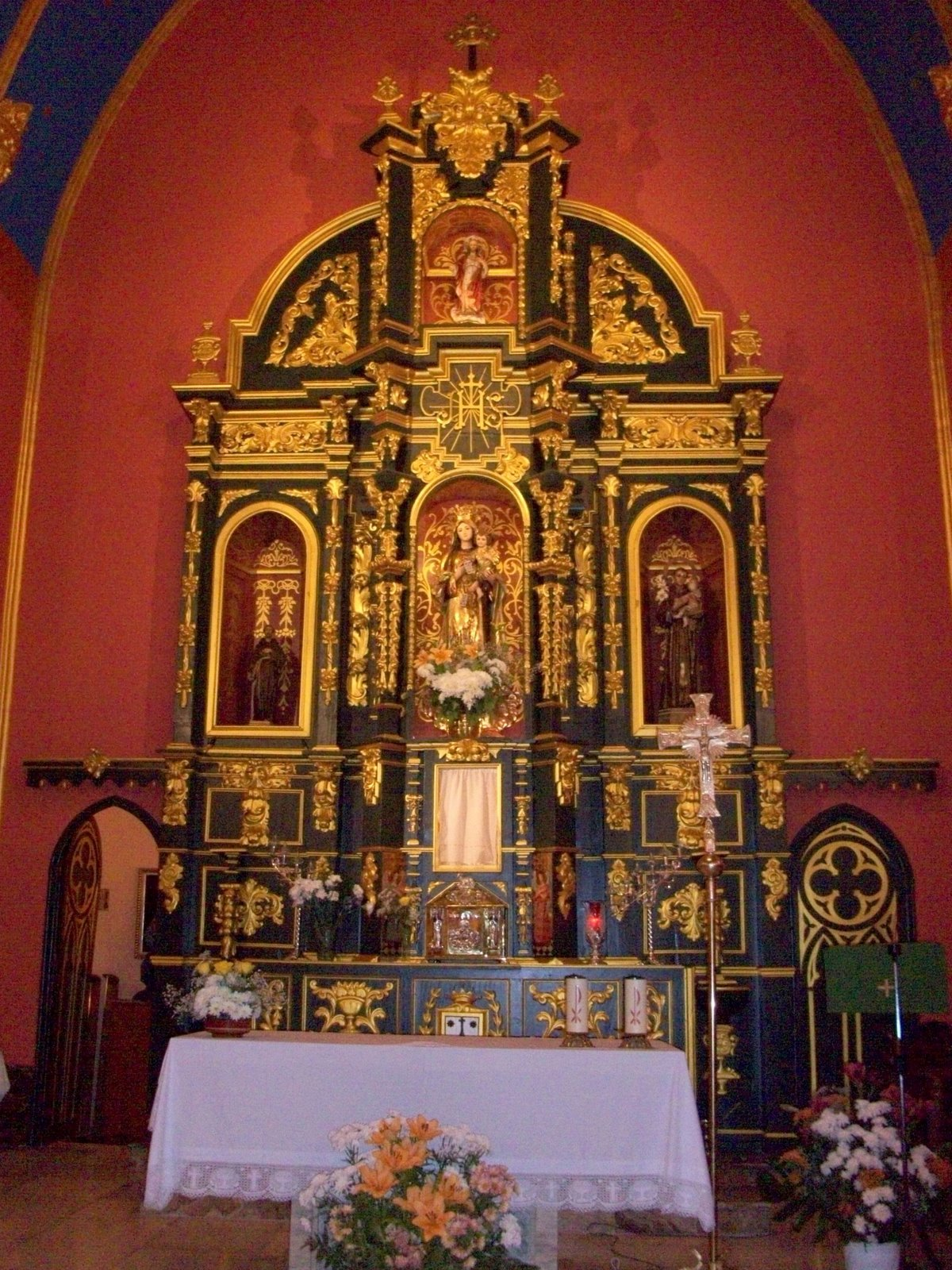 Parroquia del Carmen ,Interior